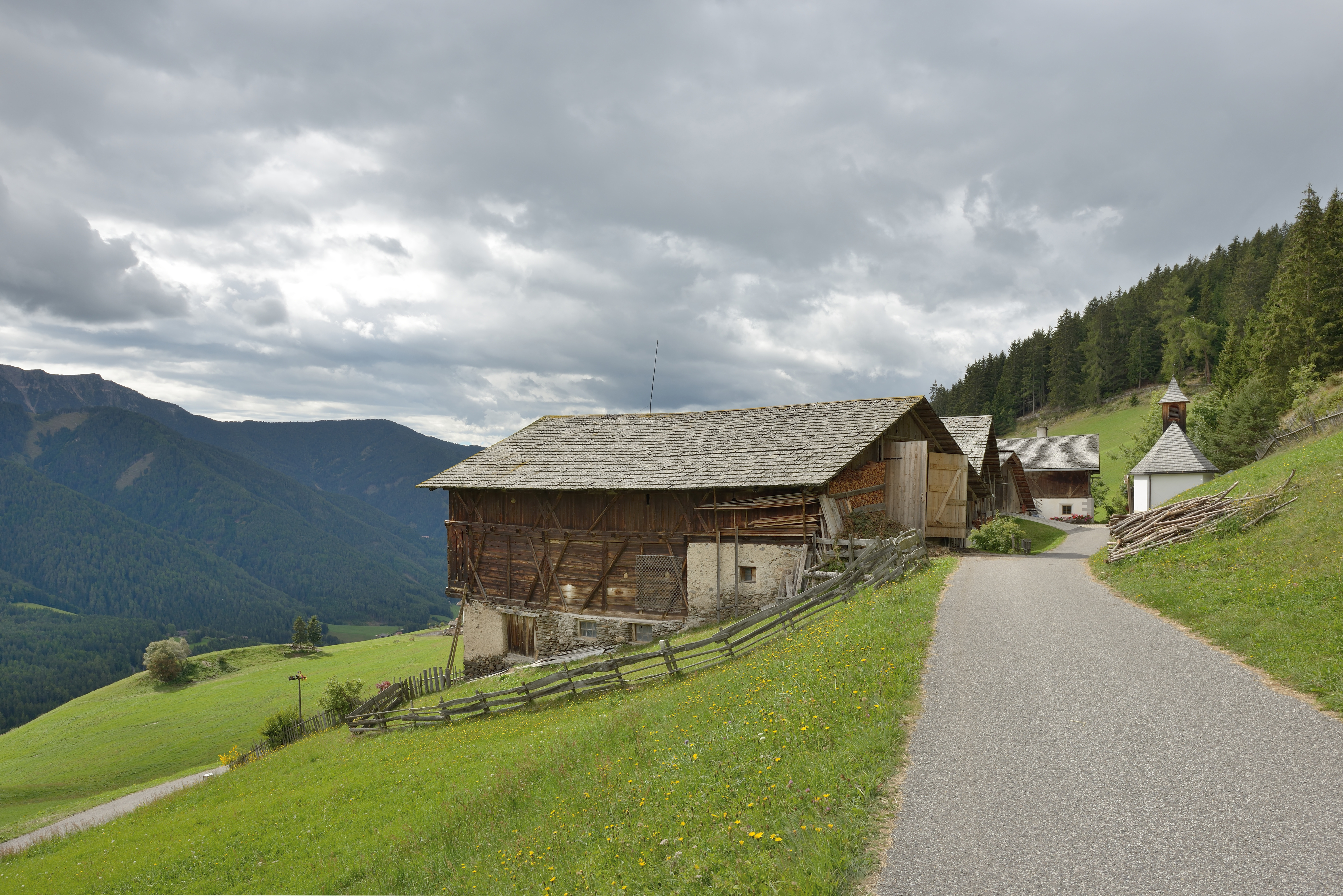 Farmhouse "Feldthun" in Villnöß